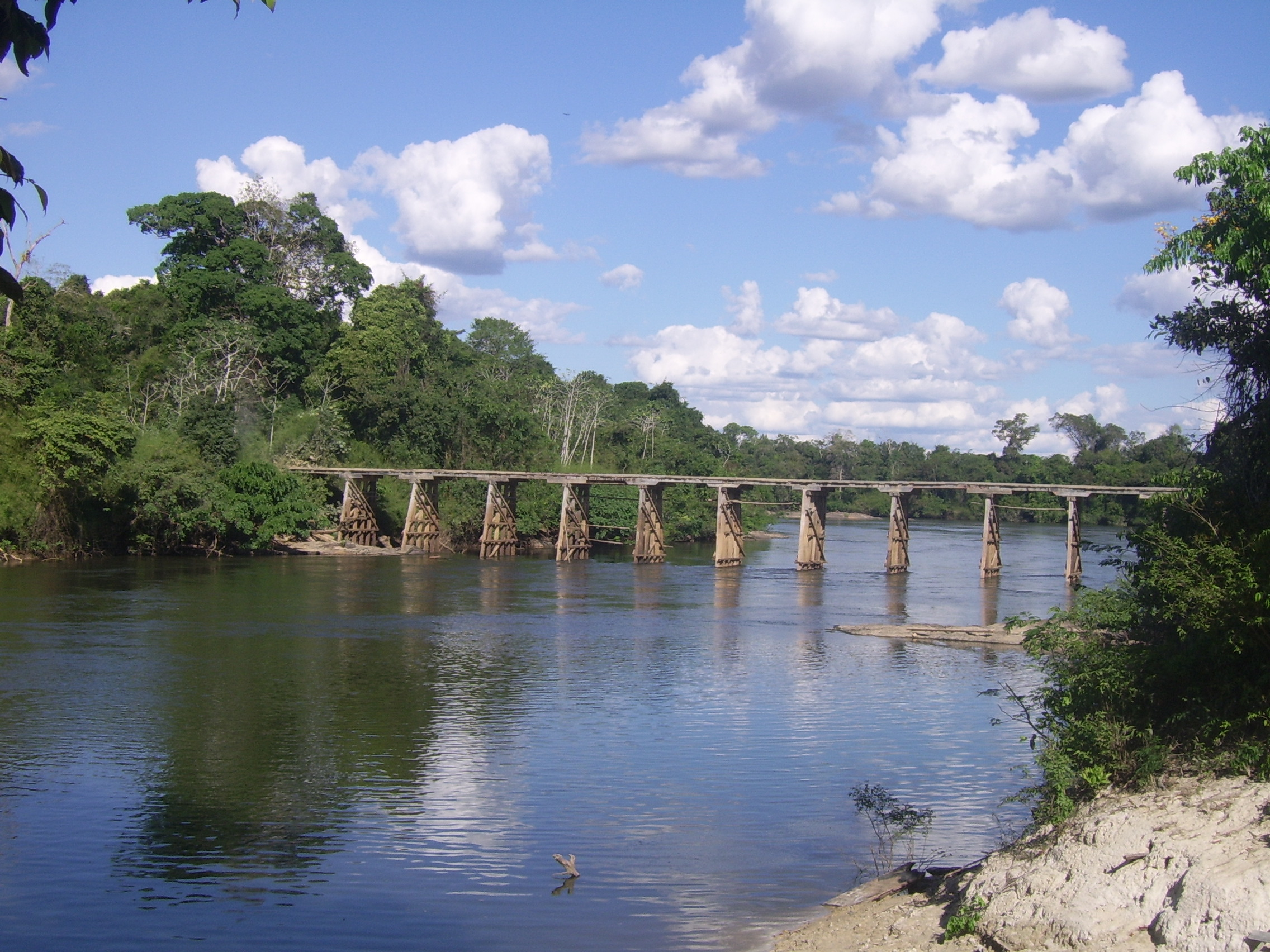 Jamanxim River Bridge, on Novo Porgresso New Progress - Pará State